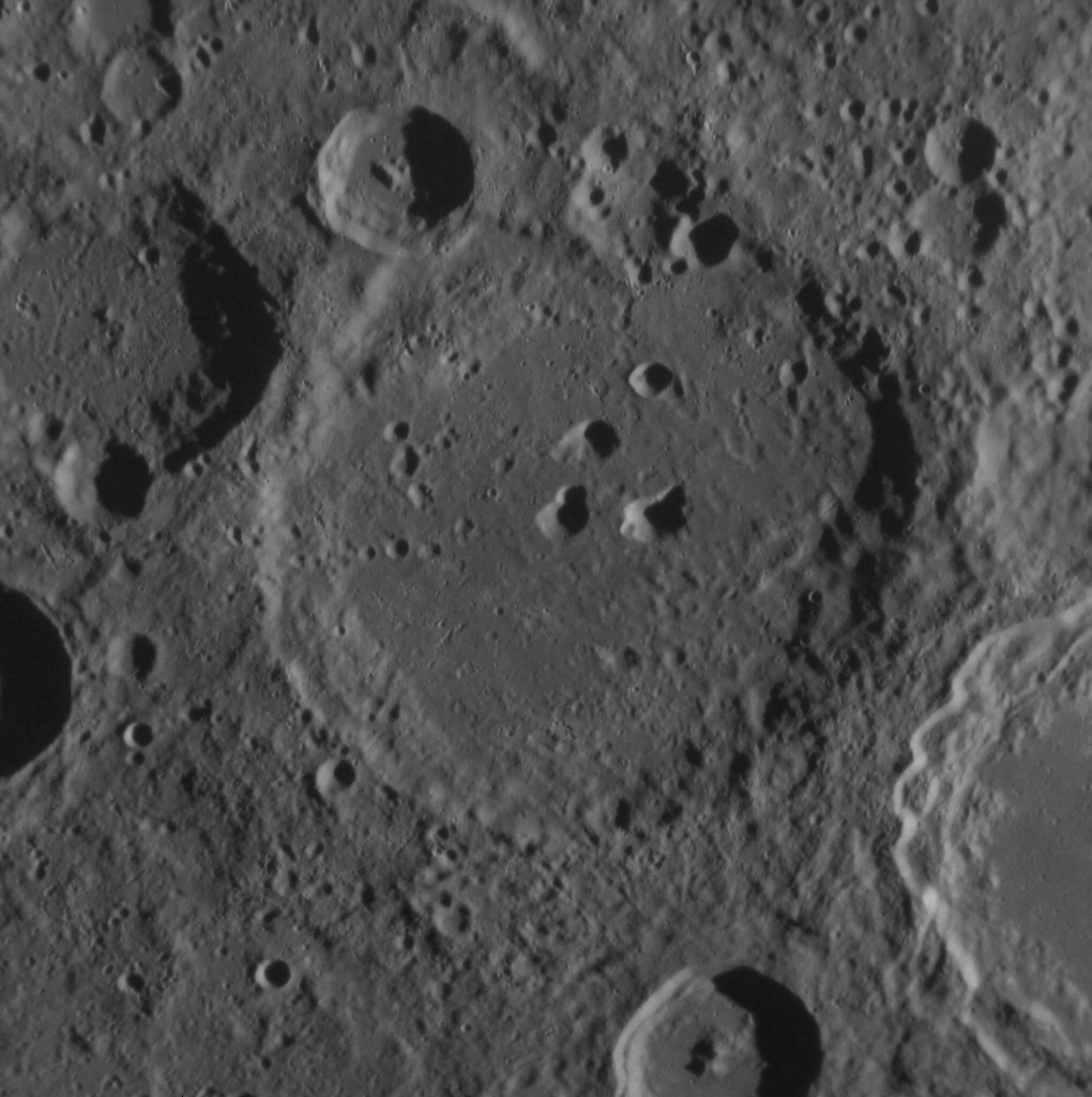 Barma crater on Mercury. MESSENGER Narrow Angle Camera image. Emission Angle: 24.4 Incidence Angle: 77.5 Latitude: -41.1 Longitude: 196.4 Phase Angle: 86.0